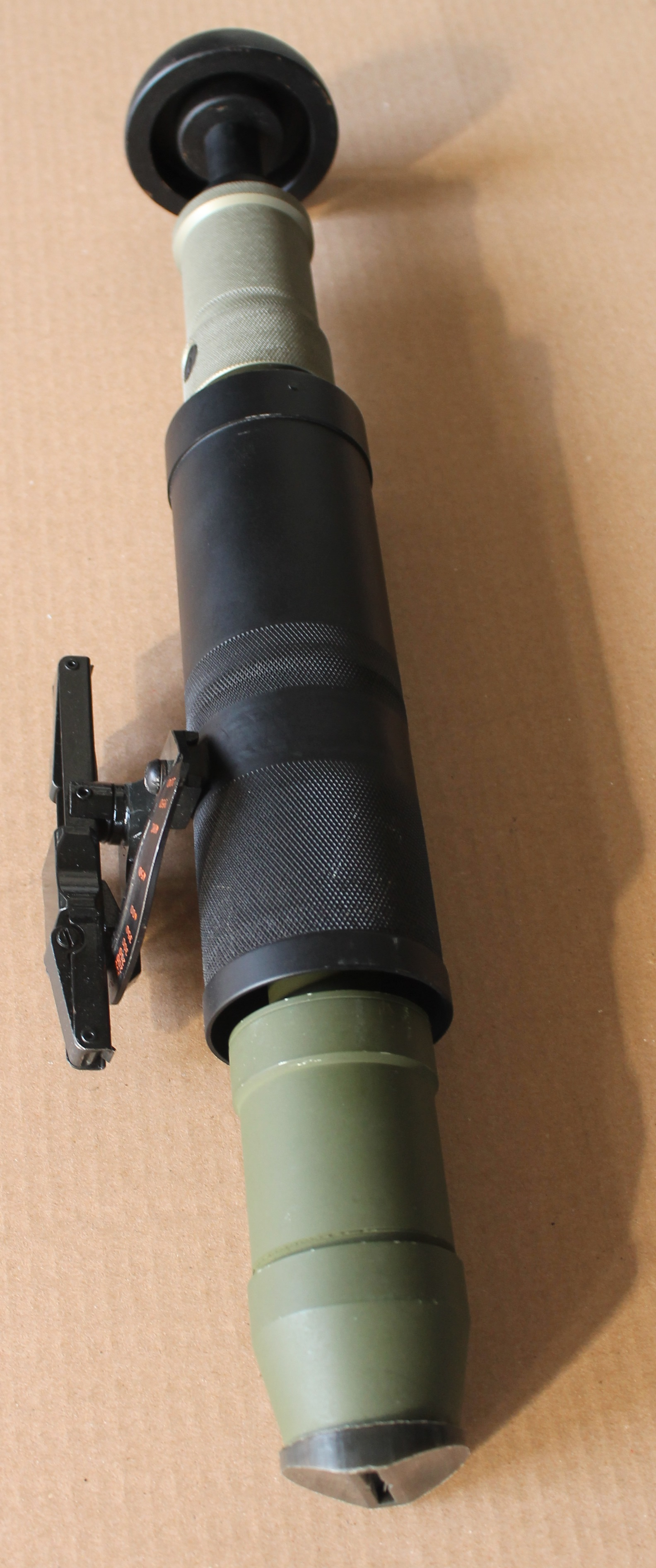 georgian made Noiseless Mortar GNM-60